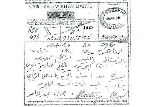 Jamal abdelnasser used the term Persian Gulf